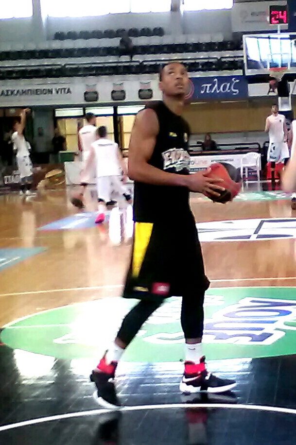 Josh Owens with AEK Athens